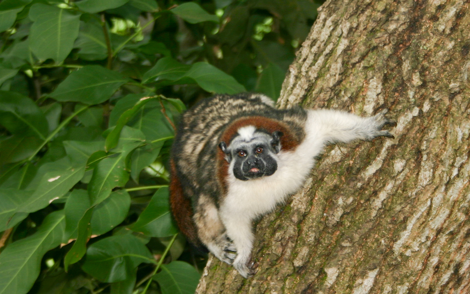 Geoffroy's Tamarin (Saguinus geoffroyi)